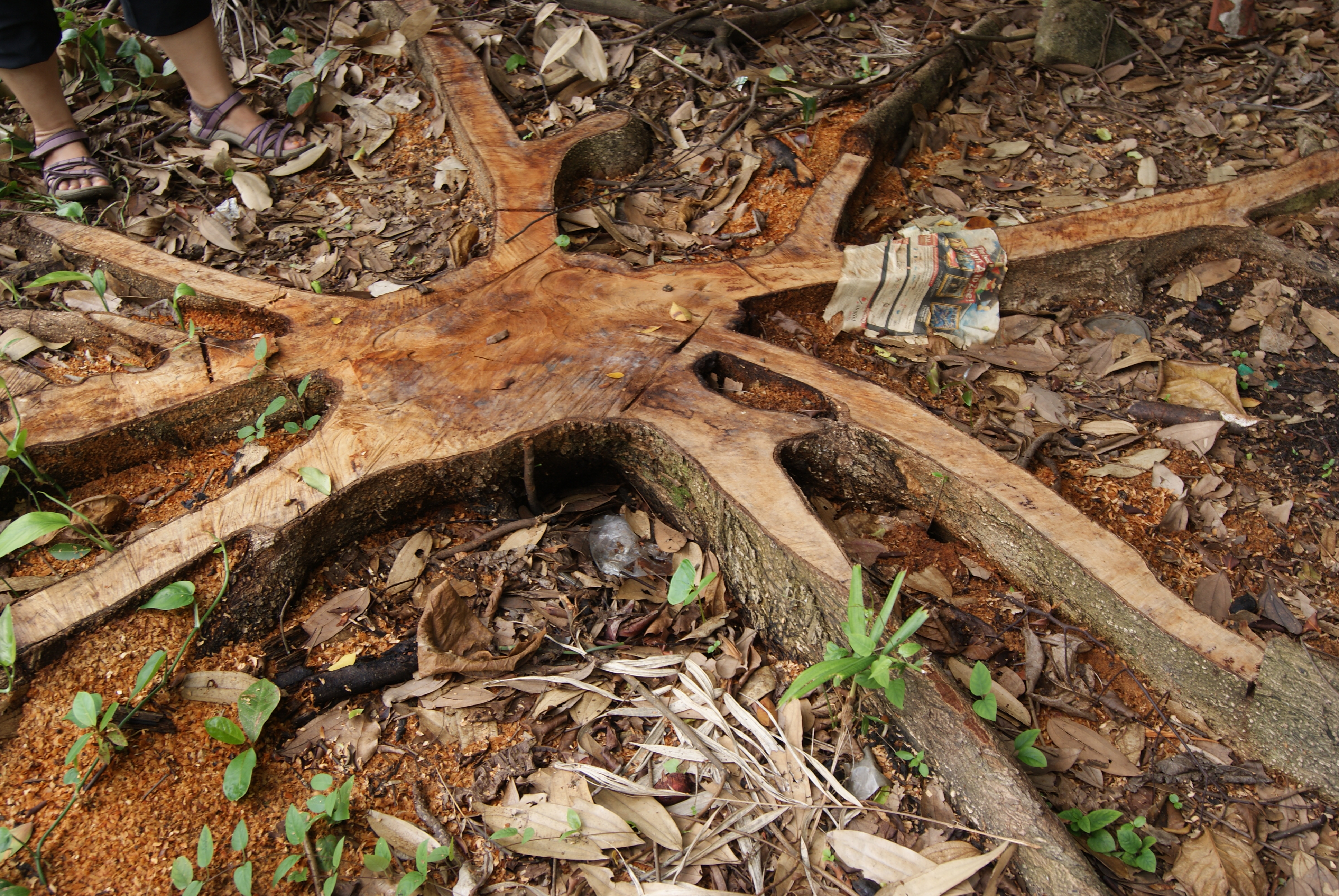 A tree stump in the Old Malay Cemetery at Kampong Glam (also known as the Jalan Kubor Cemetery), Singapore.